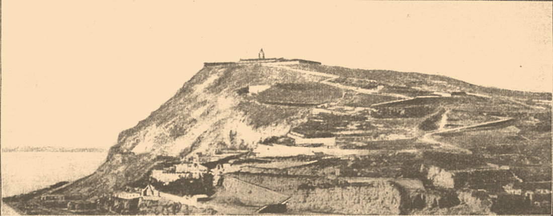 Illustration from Brockhaus and Efron Jewish Encyclopedia (1906—1913)